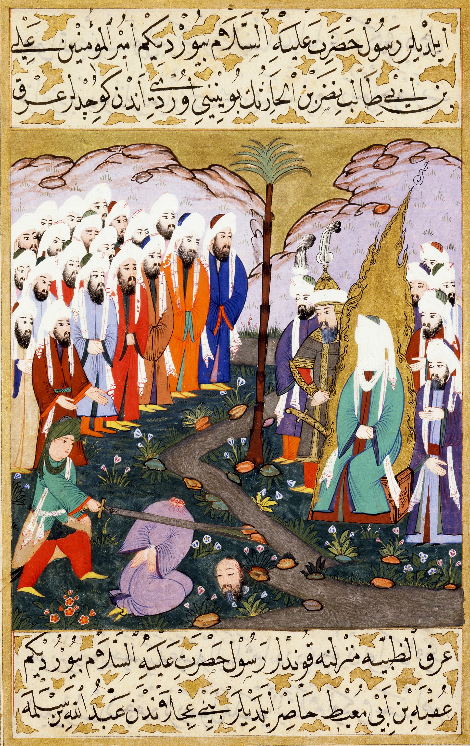 Ali Beheading Nadr ibn al-Harith in the Presence of the Prophet Muhammad. Miniature from volume 4 of a copy of Mustafa al-Darir’s Siyar-i-Nabi. Istanbul; c. 1594 The David Col.